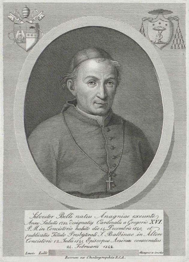 Kardinal Silvestro Belli (1781-1844)